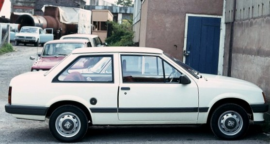 Vauxhall Nova notchback in profile